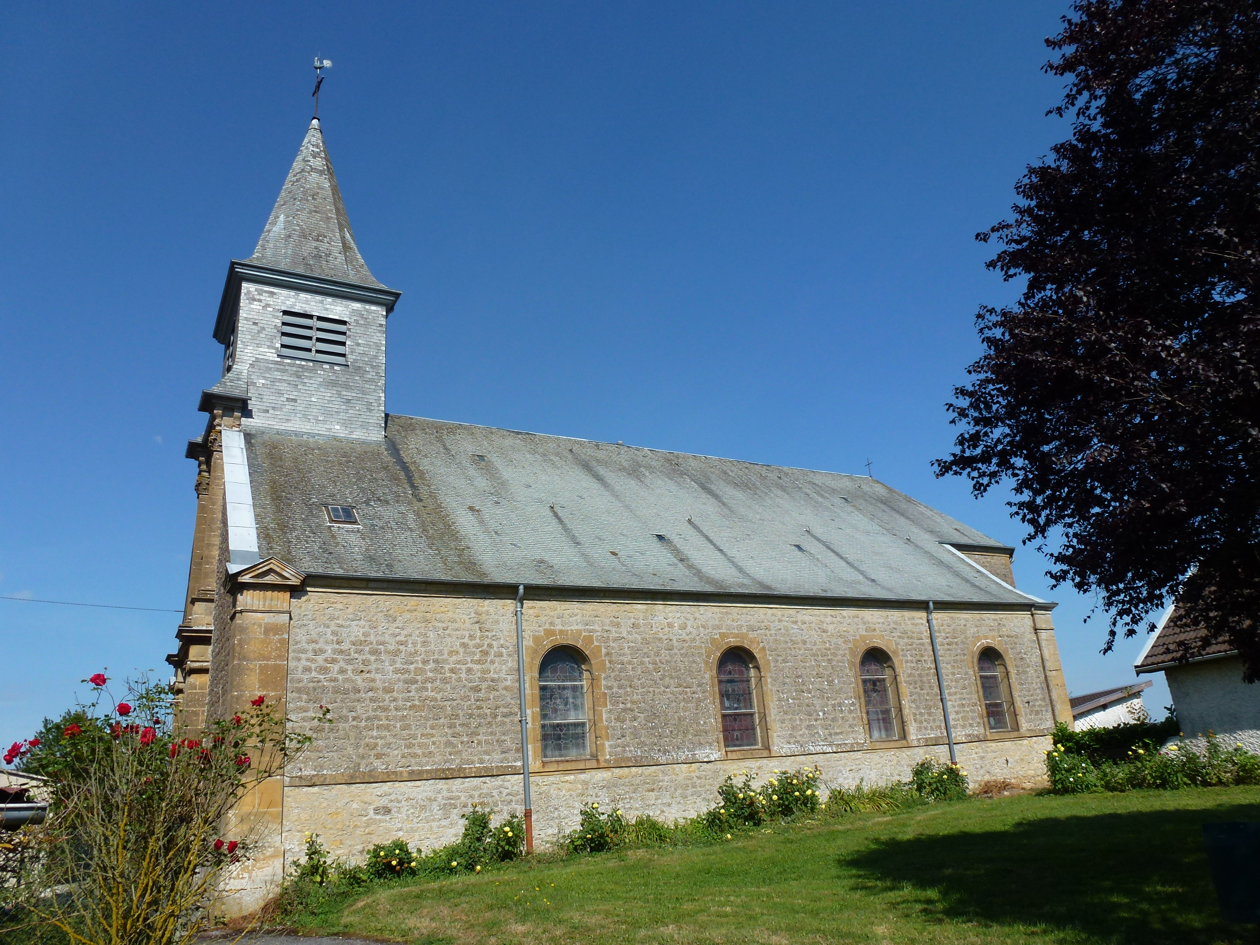 Bouvellemont (Ardennes) église, vue latérale